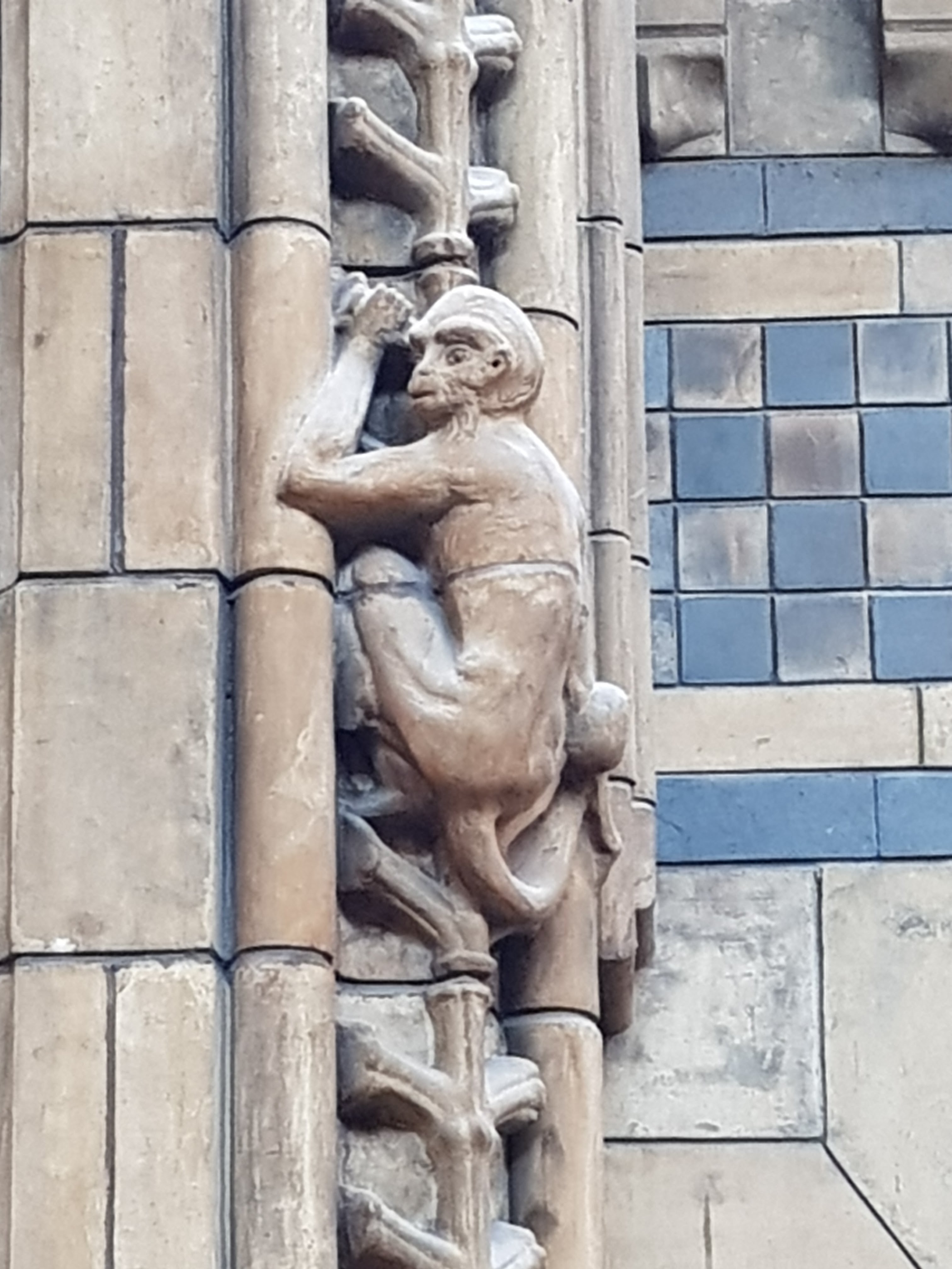 Architectural detail of a terracotta monkey in the Central Hall (Hintze Hall) of the Natural History Museum, London